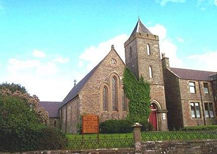 St Olaf's Episcopal Church, Kirkwall. St Olaf's Church is situated on the north side of Bignold Park Road, the main A960 road, Kirkwall.